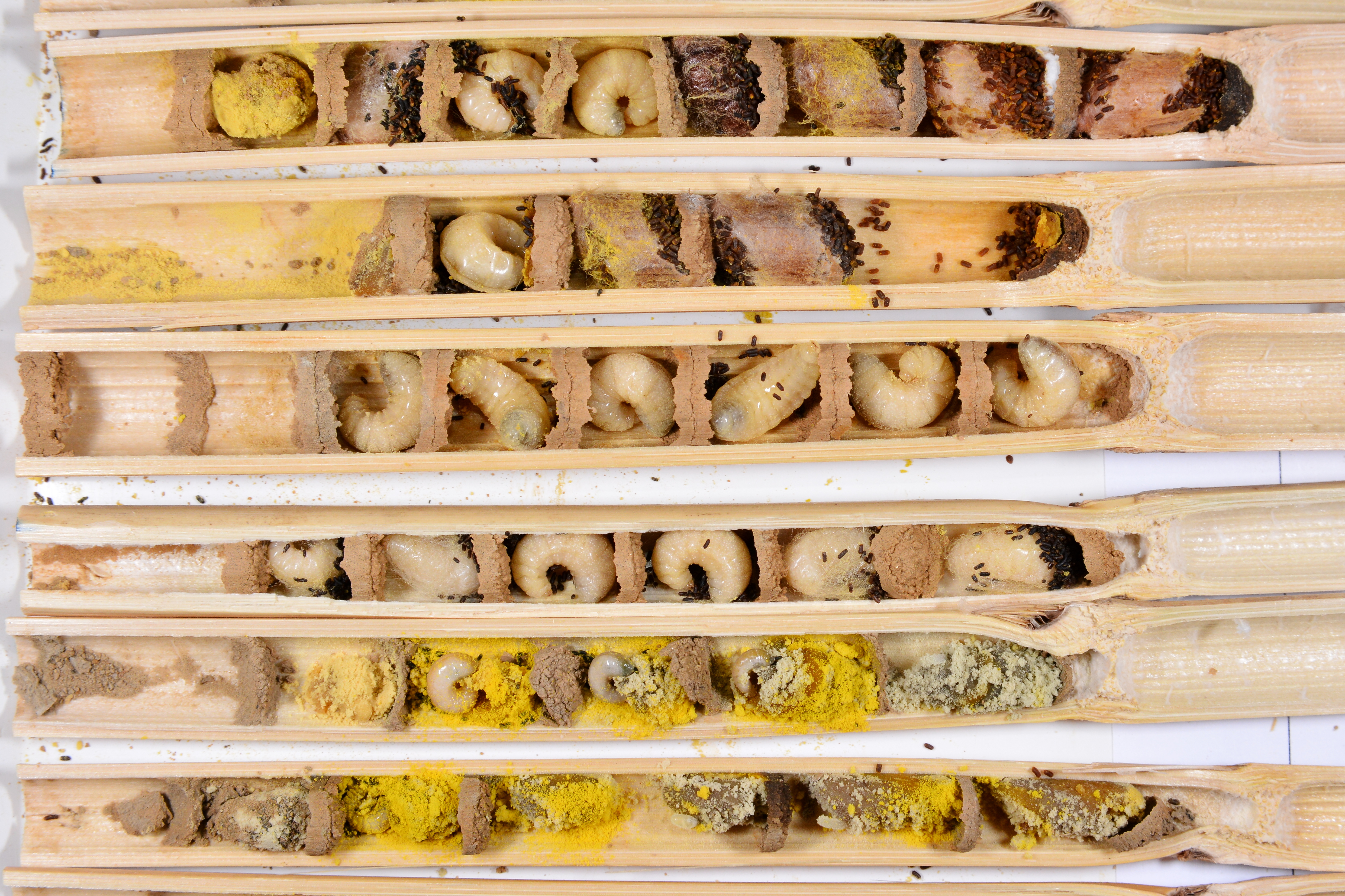 Bee hotel tubes opened with nests of Osmia bicornis (= Osmia rufa) at different development stage. The younger stages are at the bottom of the picture (eggs) and the older stages are at the top, with cocoons containing the pupa on the top right. Part of a study about honey bee and wild bees health in relation to the pollen quality (nutritional quality, pesticides contamination, pollen composition,...)